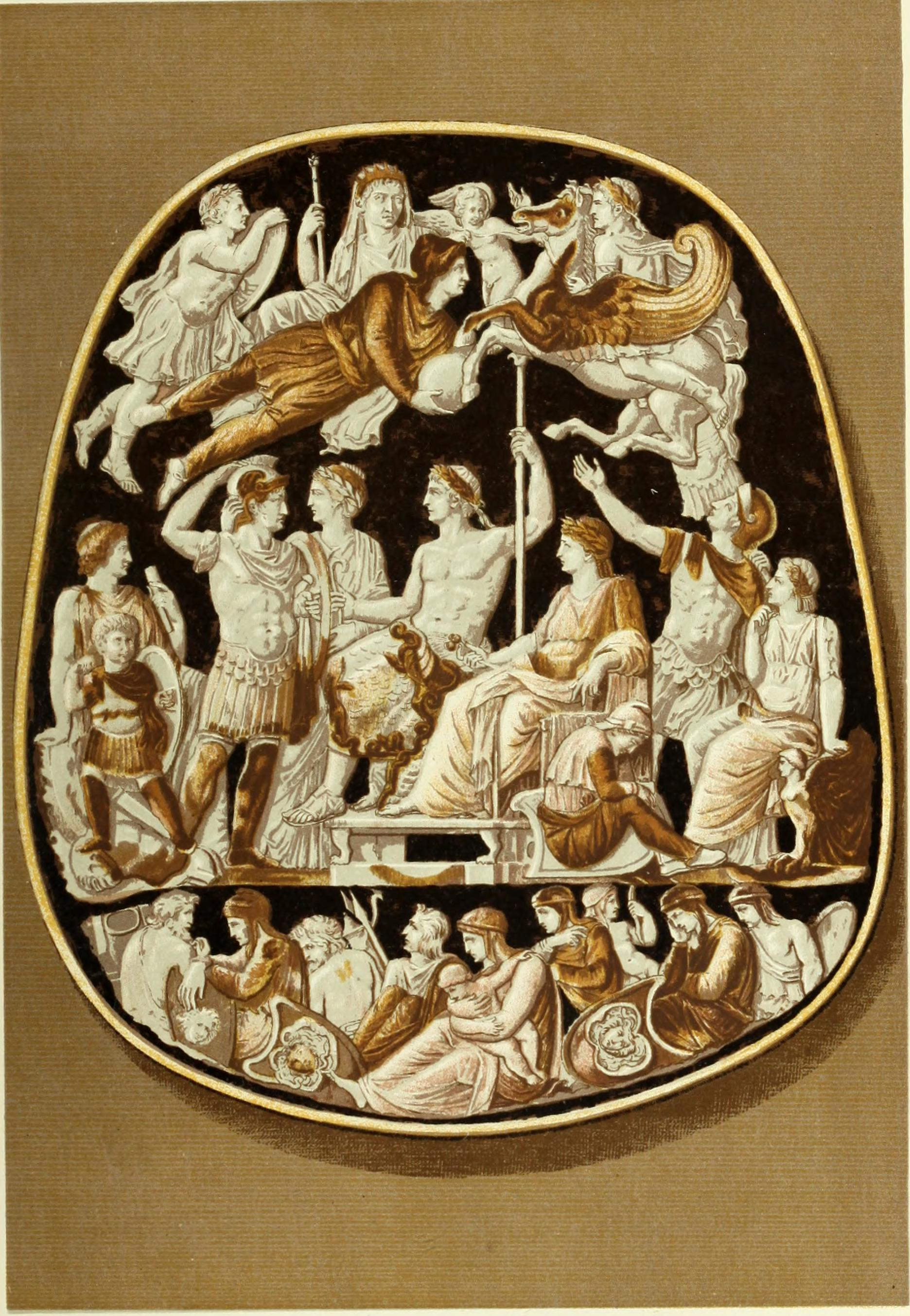 Title: History of Rome and the Roman people, from its origin to the establishment of the Christian empire Year: 1884 (1880s) Authors: Duruy, Victor, 1811-1894 Subjects: Publisher: London, Paul Text Appearing Before Image: a splendid sardonyx cameo in the Cabinet dc France (aboutL3 inches by 12)—represents the apotheosis of Augustus. The cameo, which is the largestknown, came from the treasure of the Ste. Chapelle, and is supposed to have been given byBaldwin II. of Constantinople to St. Louis (IX.). Above is Augustus on Pegasus, with Cupid,and yEneas or lulus in Phrygian dress, with the globe of the world; Caesar as pontiff with asceptre, and the elder Drusus armed, are present. In the centre is the family of Augustus inthe year 10: Tiberius with the sceptre of Jove beside Livia as Ceres. Behind Livia theyounger Drusus is showing Livilla his wife the reception of Augustus by Julius Caesar. Onthe other side Antonia turns to Germanicus her son. Behind him are Agrippina sitting inarms, and ber eon Caius with the caliga which gave him his surname. Under Tiberius andLivia, the lately vanquished Armenia. Below are German and Eastern captives, and next thevictories of Drusus and Germanicus. Historv of Rome. Text Appearing After Image: Sei.lieii pins. hnp Kraillery.APOTHEOSIS OF AUGUSTUS DAHEOor-.CEZ, chromolitl). THE LAST YEARS OF AUGUSTUS. 150 offer sacrifice yearly on the anniversary of my return from Syria to Rome,and that this day should be called from my name Augustalia. XII. By a decree of the senate, the leading men of the State, withsome of the pryetors and tribunes and the consul, Q. Lucretius, were sentto meet me in Campania, an honour never before accorded to any one.When, after having successfully arranged the affairs of Spain and Gaul, Ireturned from those provinces to Rome, during the consulship of Tib. Neroand P. Quintilius, the senate decreed the erection of an altar on account